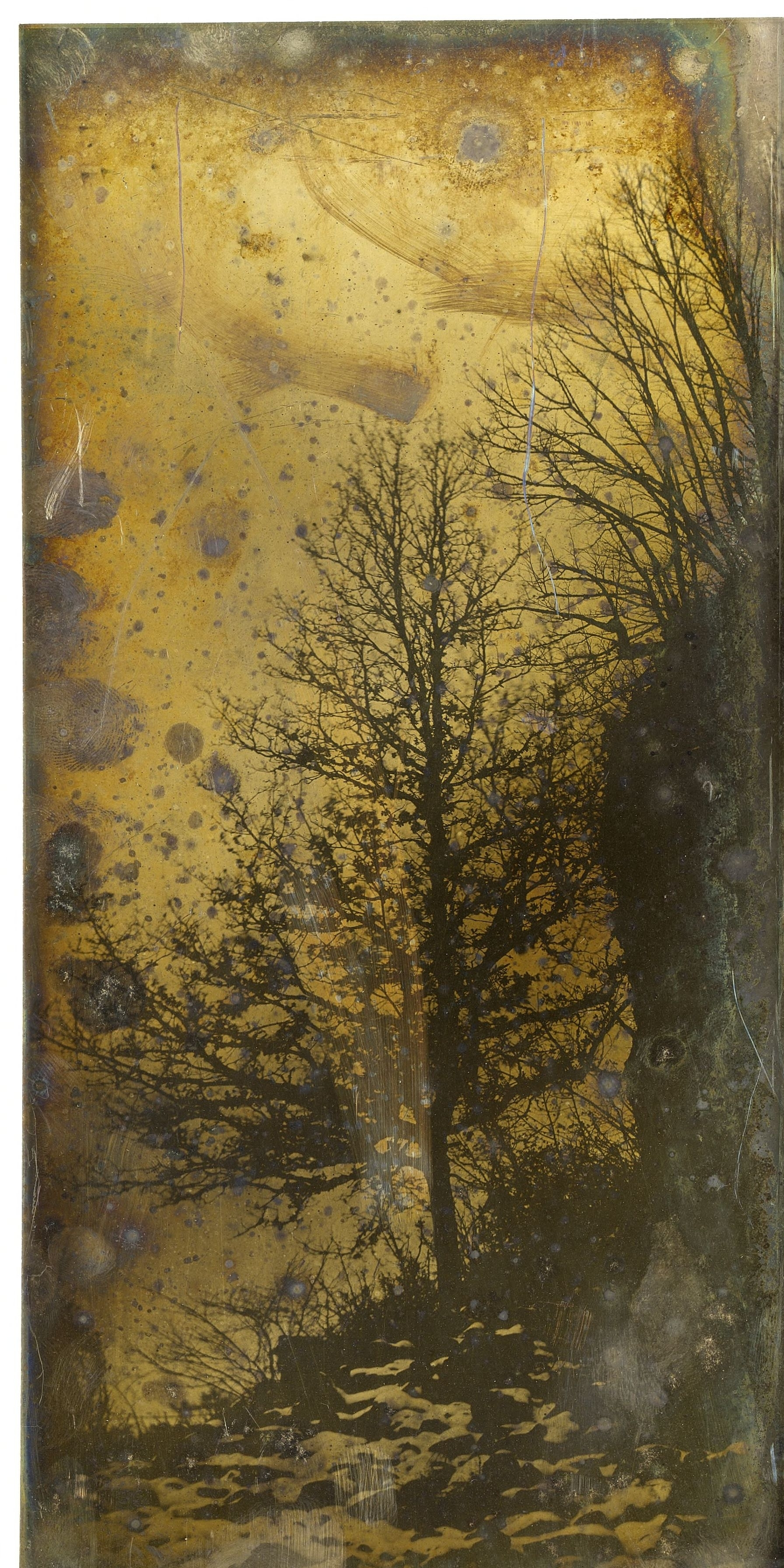 Picture of a tree by Joseph-Philibert Girault de Prangey.